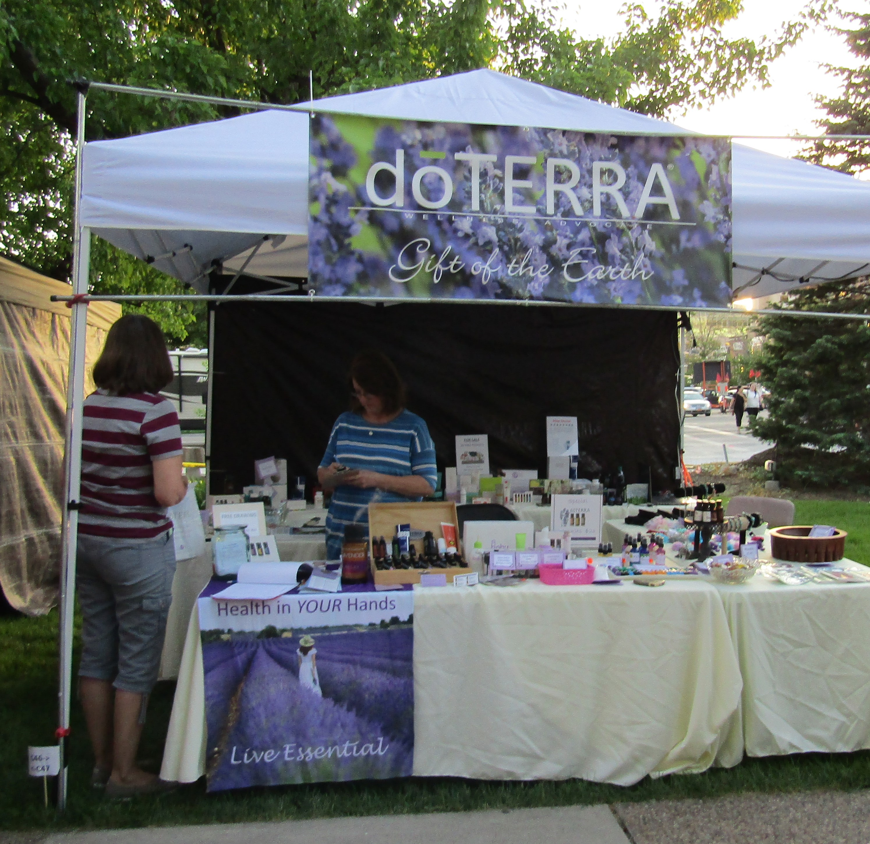 Promotional booth for doTERRA at the Utah Pasifika Festival.